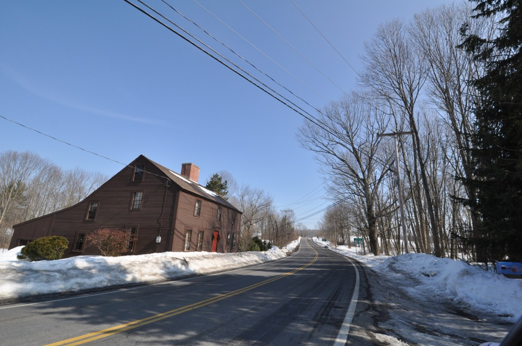 Looking east on New Hampshire Routes 107 and 108 in East Kingston, NH. The historic Greeley House is on the left.